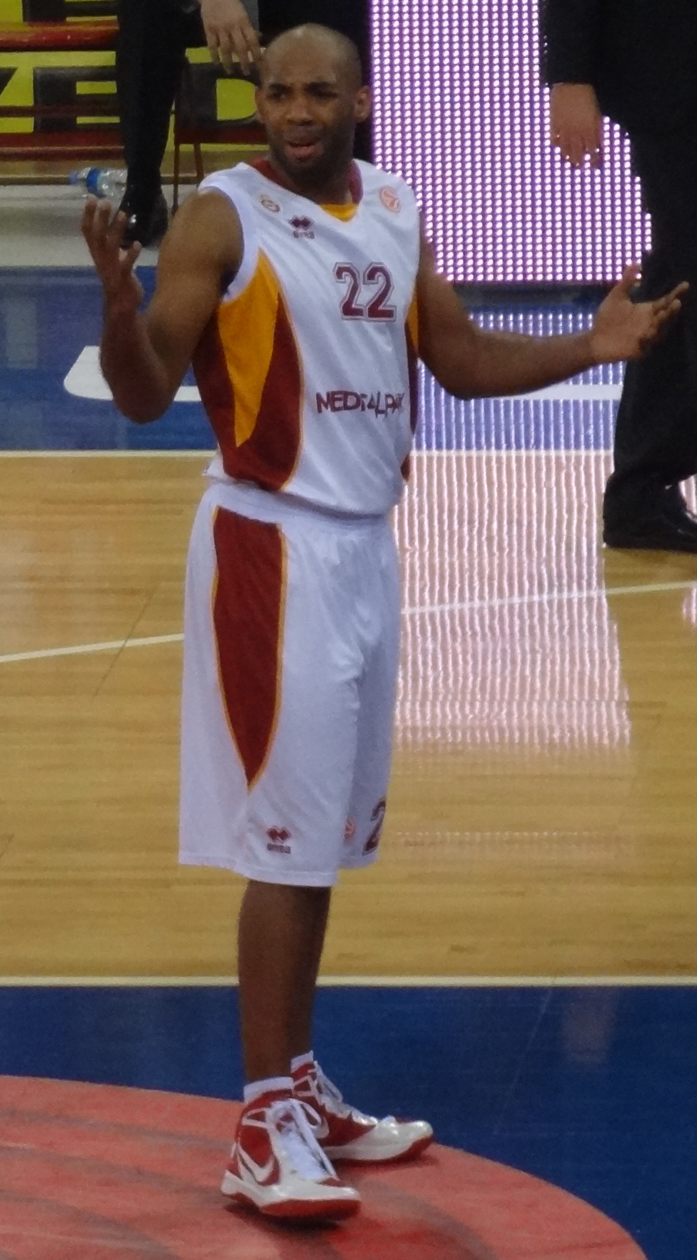 JamonGordon playing against Efes